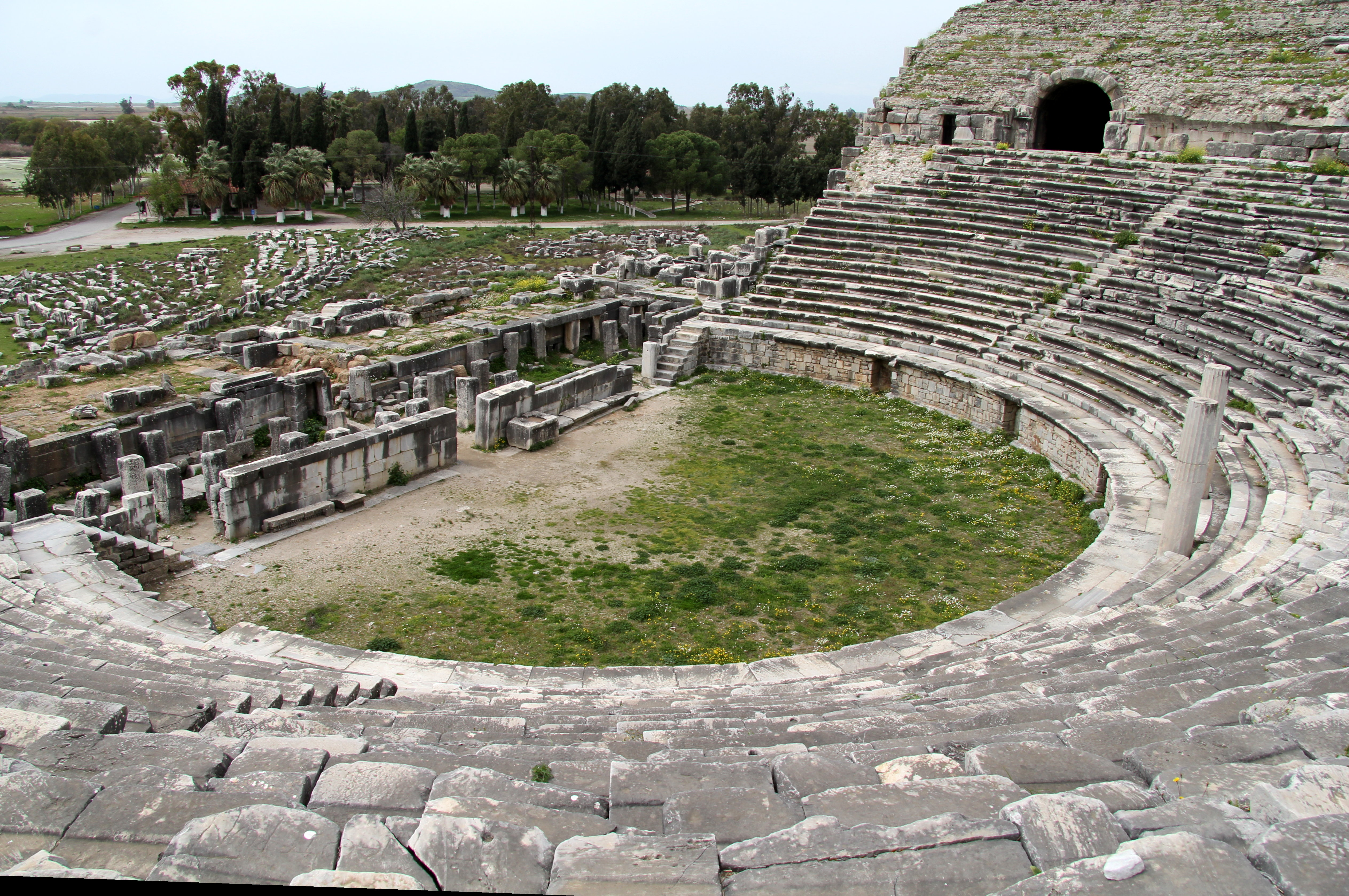 Turkey: Archaeological site of the ancient Greek city of Miletus